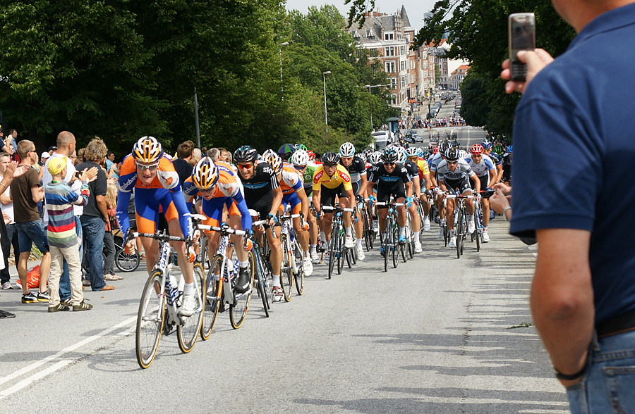 2011 Danmark Rundt - The final stage 6 in the streets of Copenhagen (Valby Bakke) with around 5 km to finish. Simon Gerrans in the yellow jersey in the center